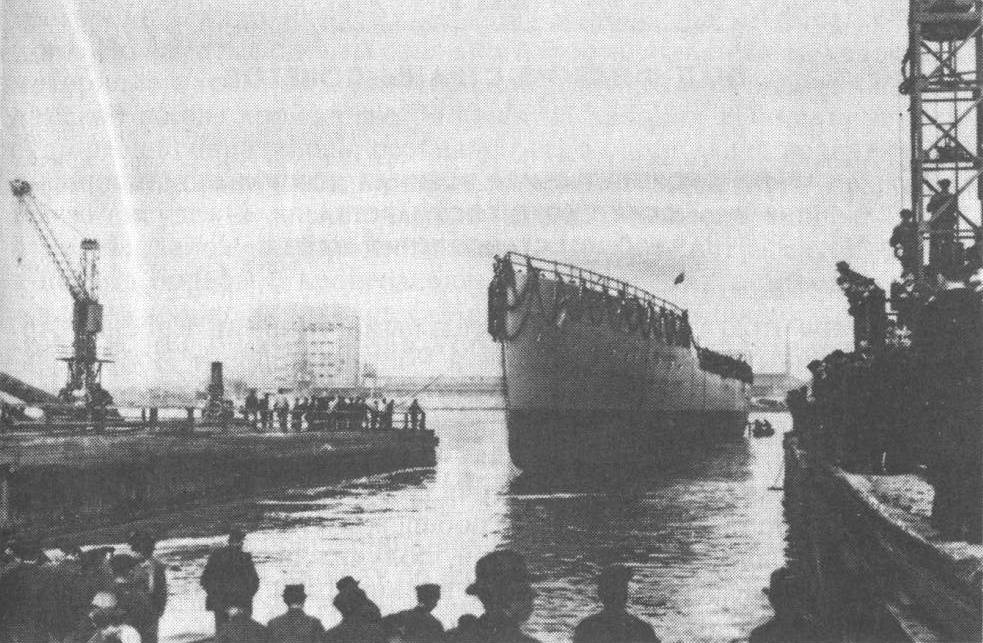 The Imperial Russian cruiser Muravyov-Amursky at the German Schichau-Werke shipyard in Gdańsk